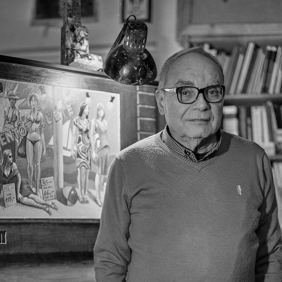 Sergio Ceccotti in his studio